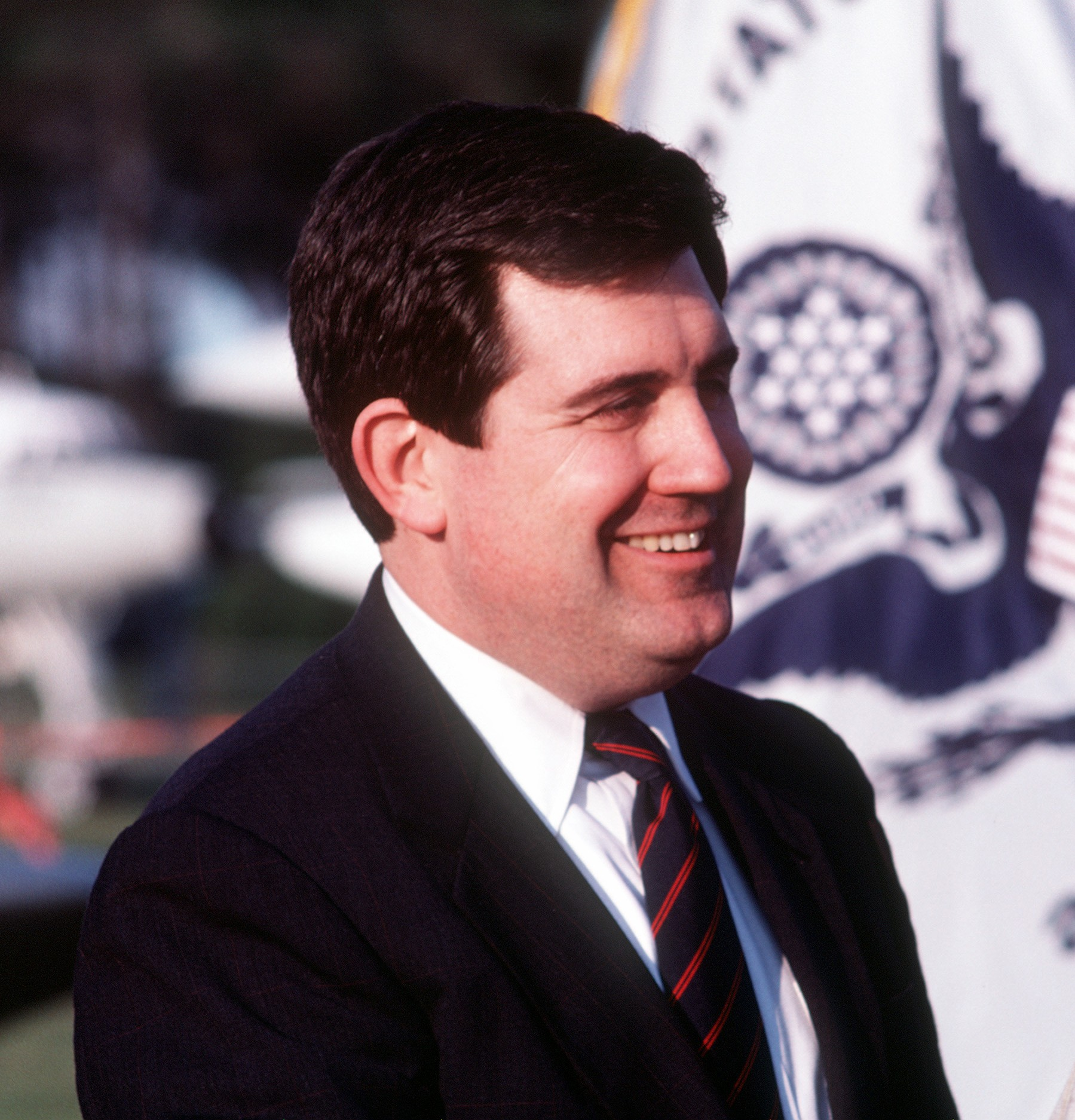 Secretary of the Navy William L. Ball converses with dignitaries at the groundbreaking ceremony for Phase III of the Naval Aviation Museum.